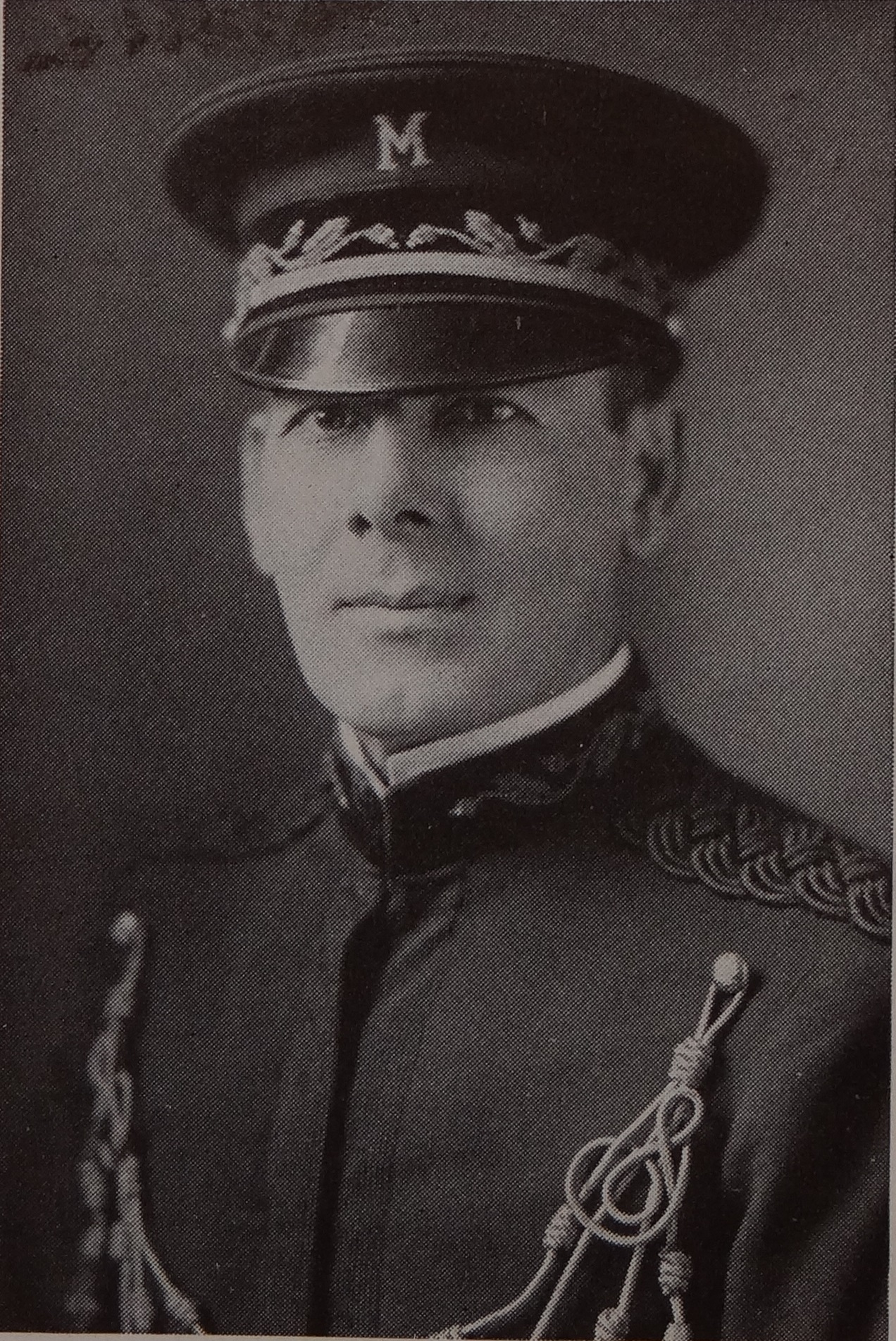 Photograph of Wilfred W. Wilson, University of Michigan band director This work is in the public domain because it was published in the United States between 1923 and 1963 and although there may or may not have been a copyright notice, the copyright was not renewed. Unless its author has been dead for the required period, it is copyrighted in the countries or areas that do not apply the rule of the shorter term for US works, such as Canada (50 pma), Mainland China (50 pma, not Hong Kong or Macao), Germany (70 pma), Mexico (100 pma), Switzerland (70 pma), and other countries with individual treaties. See Commons:Hirtle chart for further explanation.